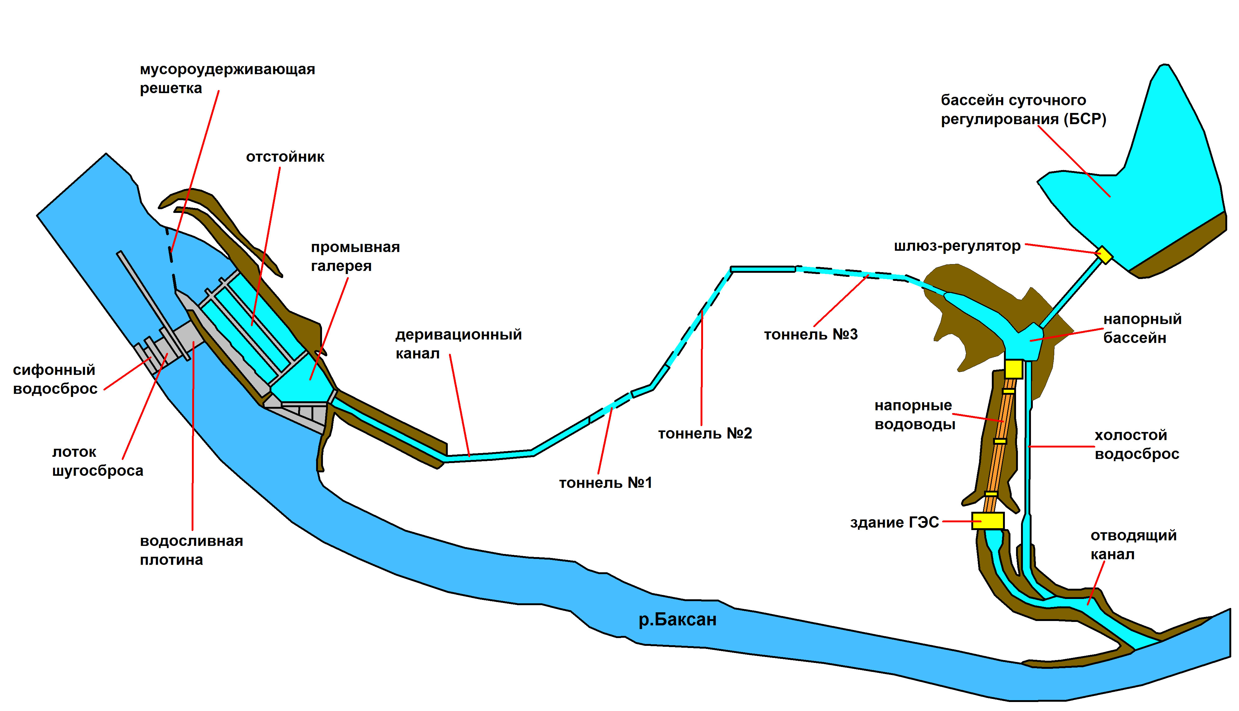 Scheme Baksan HPP